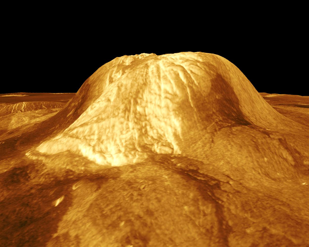 Gula Mons is displayed in this computer-simulated view of the surface of Venus. The viewpoint is located 110 kilometers (68 miles) southwest of Gula Mons at the same elevation as the summit, 3 kilometers (1.9 miles) above Eistla Regio. Lava flows extend for hundreds of kilometers across the fractured plains. The view is to the northeast with Gula Mons appearing at the center of the image. Gula Mons, a 3 kilometer (1.9 mile) high volcano, is located at approximately 22 degrees north latitude, 359 degrees east longitude in western Eistla Regio. Magellan synthetic aperture radar data is combined with radar altimetry to produce a three-dimensional map of the surface. Rays cast in a computer intersect the surface to create a three-dimensional perspective view. Simulated color and a digital elevation map developed by the U.S. Geological Survey are used to enhance small-scale structure. The simulated hues are based on color images recorded by the Soviet Venera 13 and 14 spacecraft. The image was produced by the JPL Multimission Image Processing Laboratory and is a single frame from a video released at the March 5, 1991, JPL news conference.